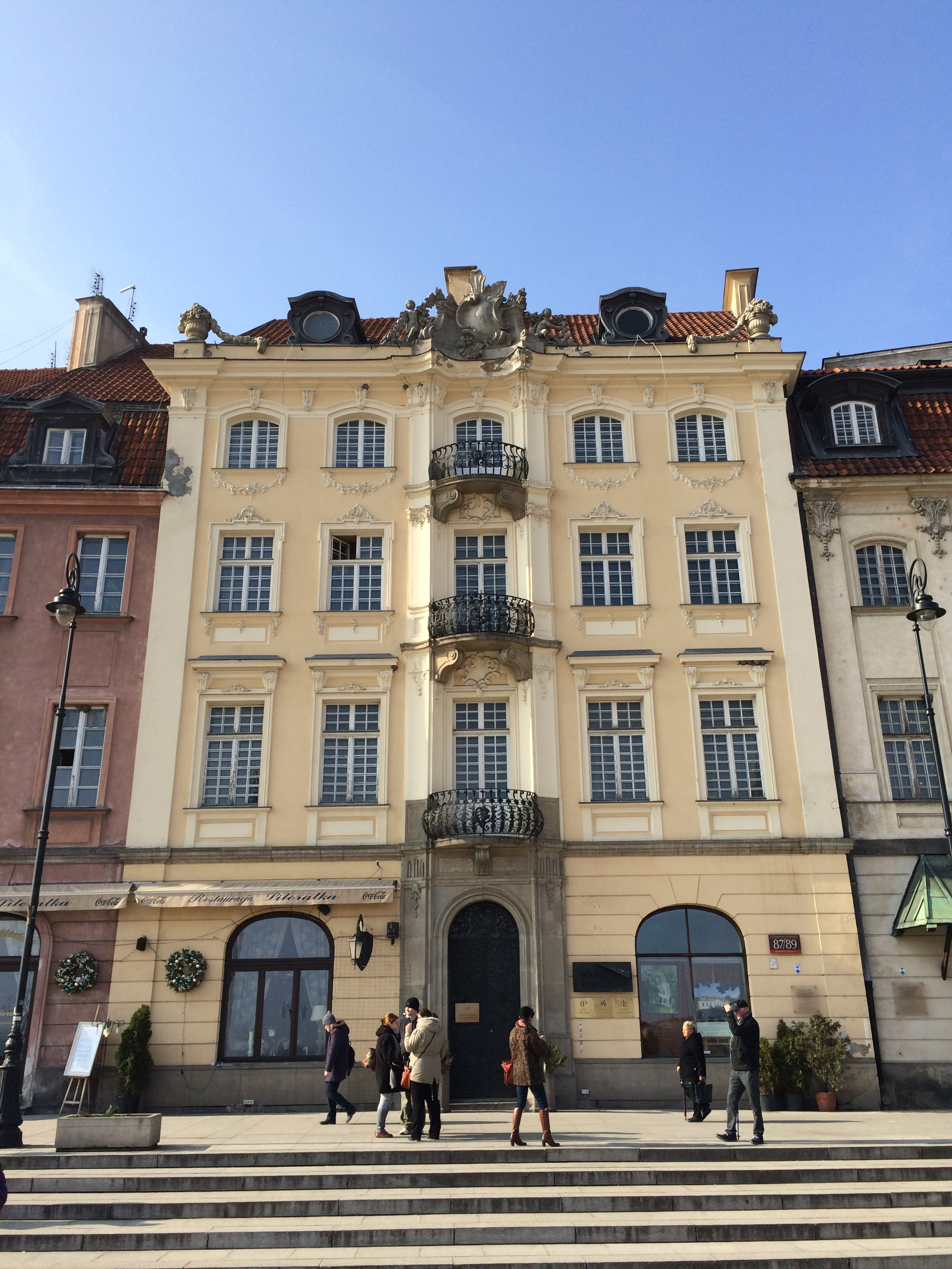 The Leszczynski Residence (Kamienica Leszczynski), on Krakowskie Przedmieście in Warsaw, Poland